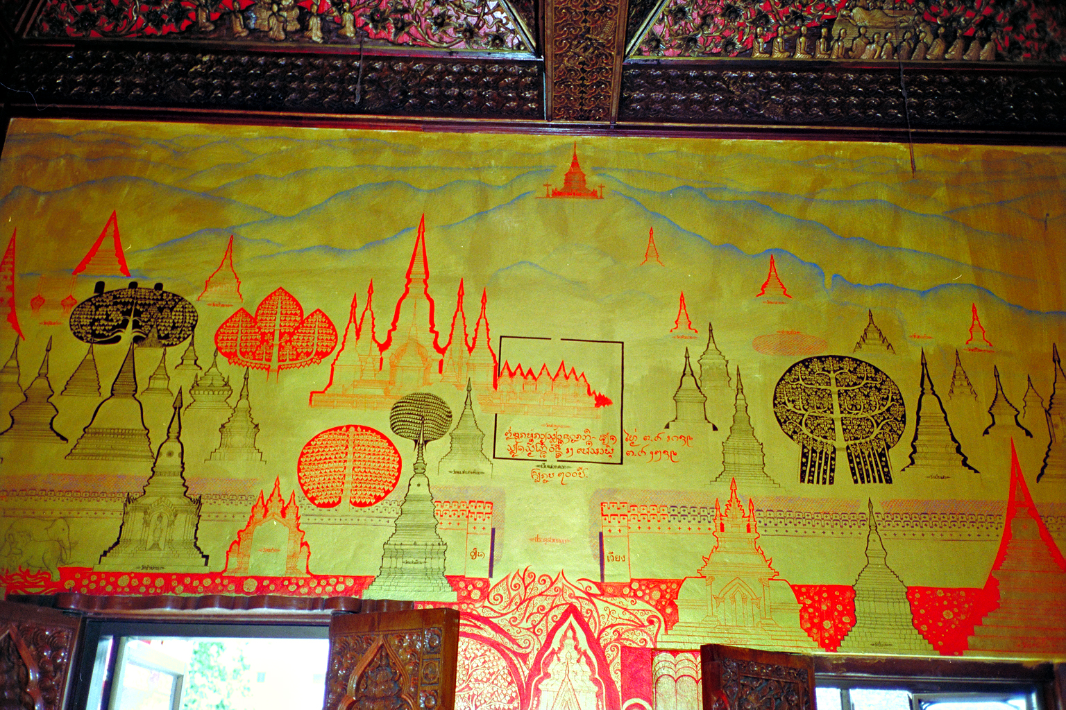 Wat Buppharam, Chiang Mai: mural in second floor depicting an artists view westward from the window in Hor Monthian Tham - middle: Wat Suan Dork; top: Wat Phrathat Doi Suthep